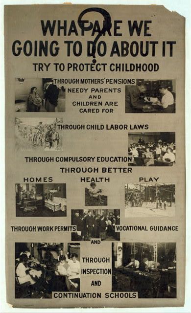 Title: Exhibit panel Creator(s): Hine, Lewis Wickes, 1874-1940, photographer Date Created/Published: [1914?] Rights Advisory: No known restrictions on publication. Call Number: LOT 7483, v. 2, no. 3789 ; LC-H5- 3789 Repository: Library of Congress Prints and Photographs Division Washington, D.C. 20540 USA Attribution to Hine based on provenance.